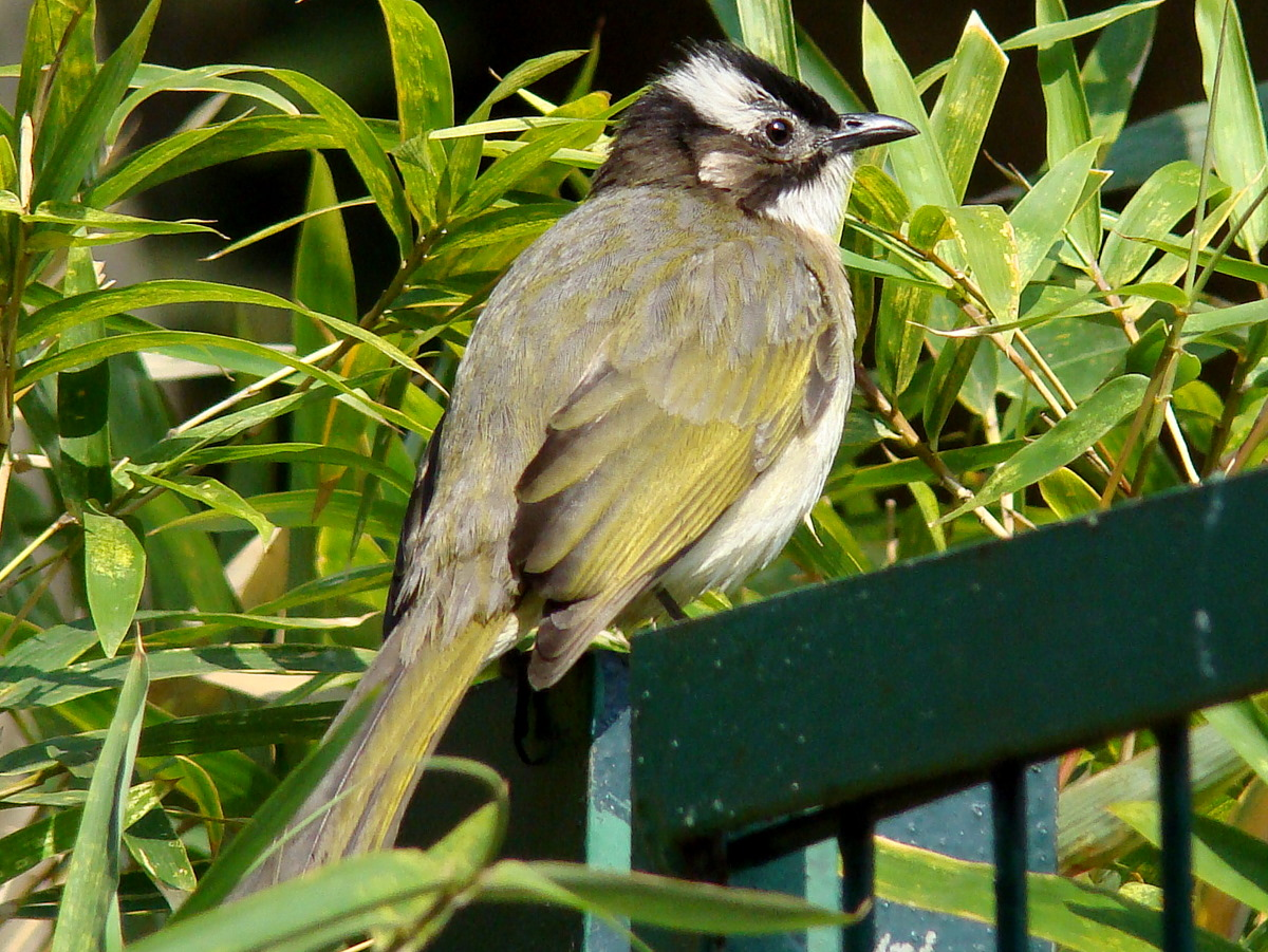 Chinese Bubul - Pycnonotus sinensis